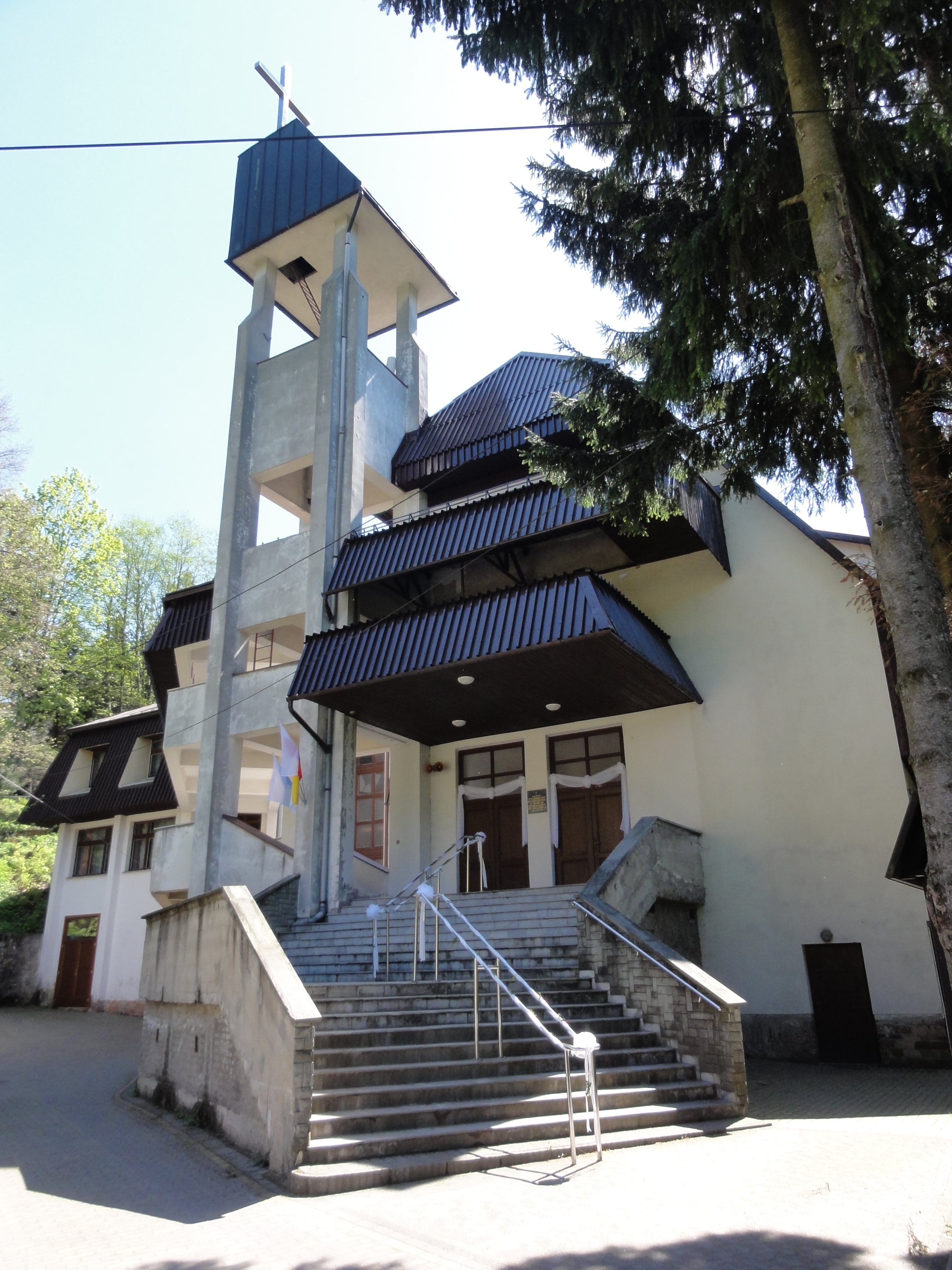 Church of Saint Paul of the Cross in Wisła-Nowa Osada